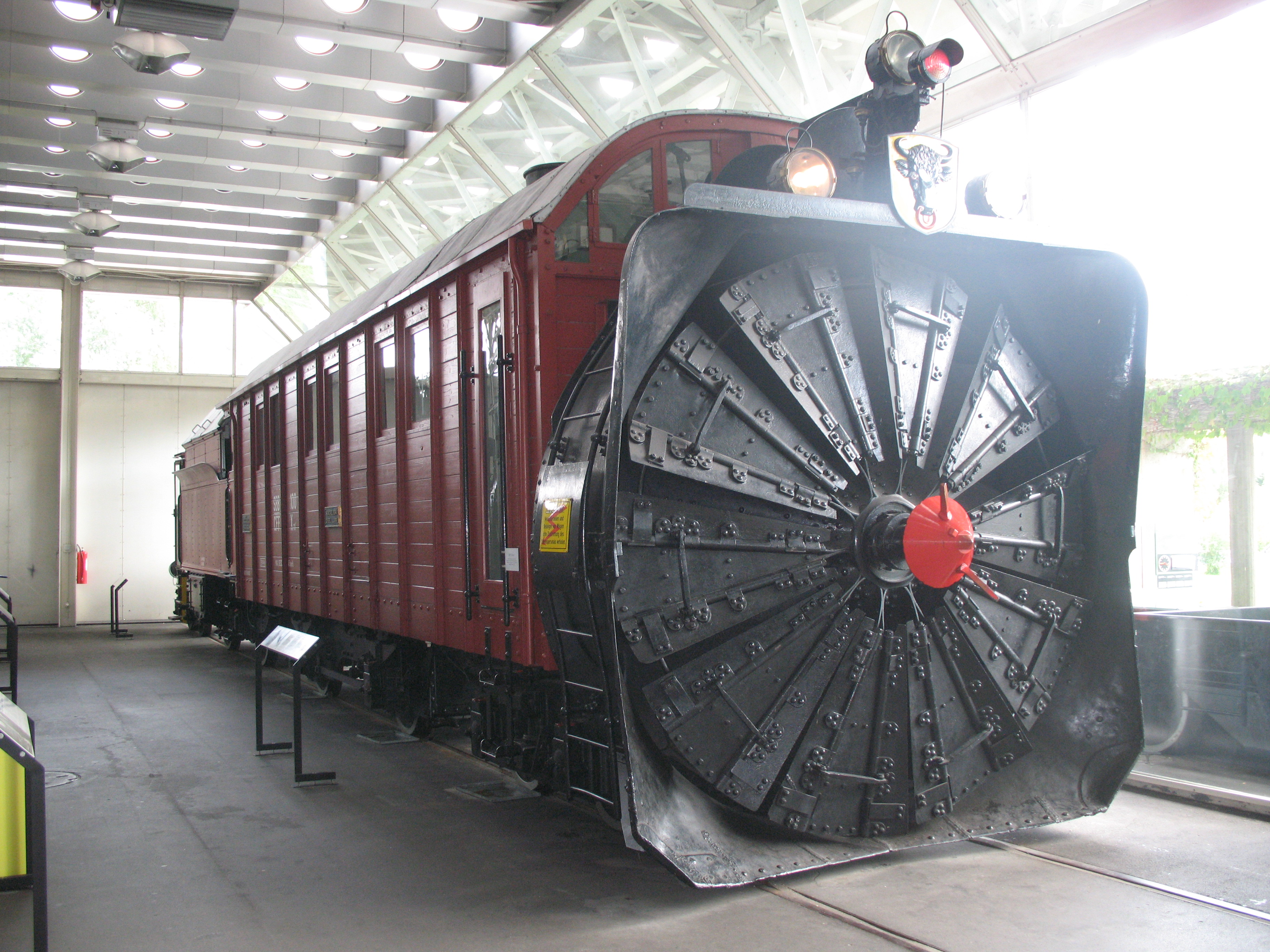 SBB-CFF-FFS Rotary snowplow Xrotd 100 in the Swiss Transport Museum, Luzern, Switzerland